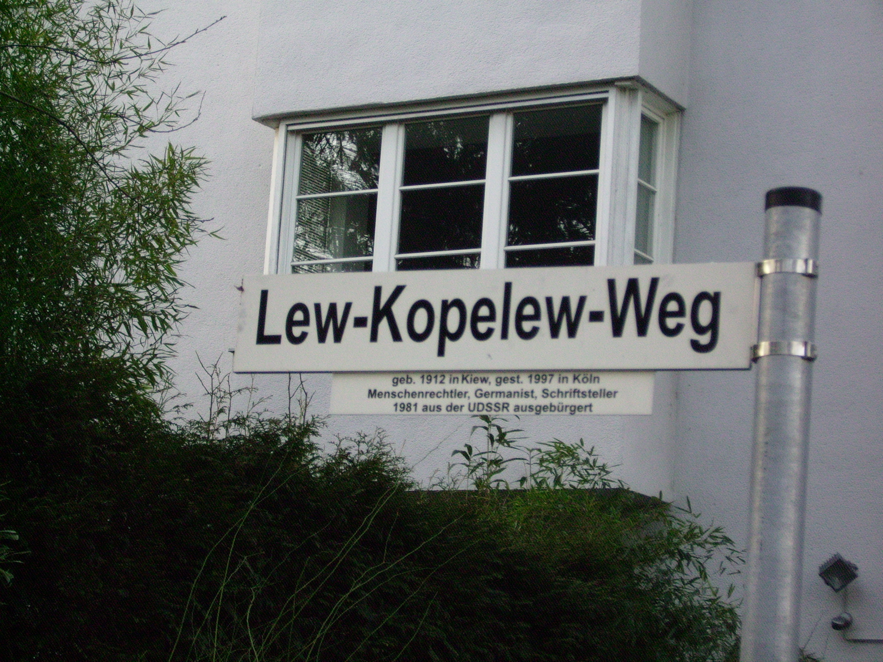 Lew-Kopelew-Weg in Cologne, Germany